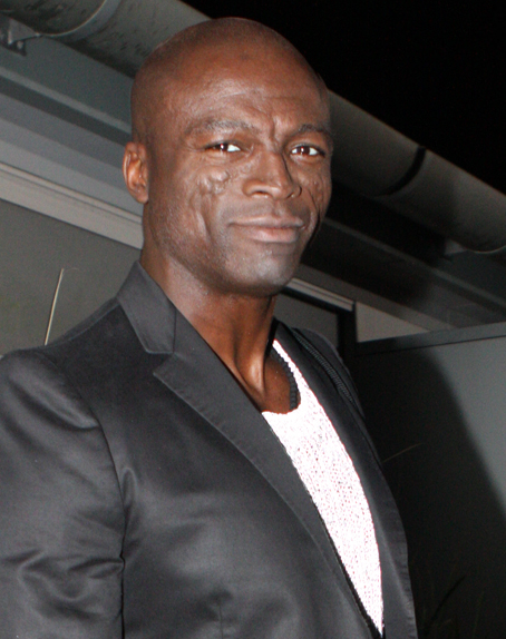 Seal at the The Voice Judges, Celebrities Dine At Bondi Icebergs Dining Room and Bar, Sydney, Australia 2012.